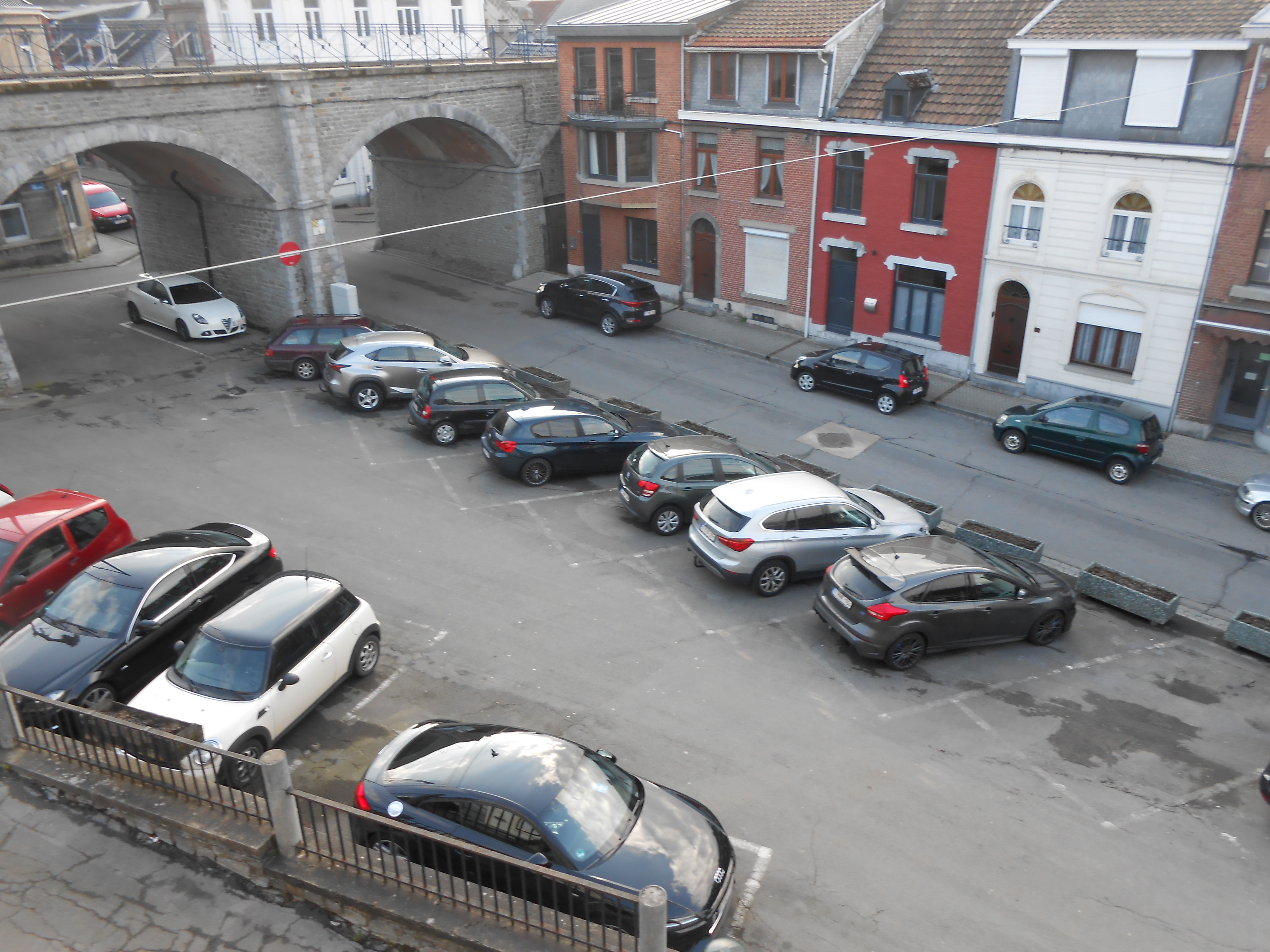 Spa, Place de la providence